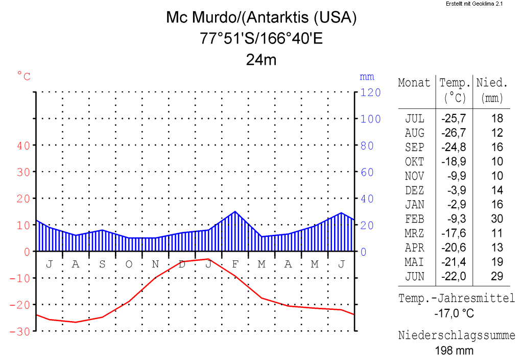 climate chart in the format by Walther and Lieth, metric, °Celsisus and millimeters, made with Geoklima 2.1